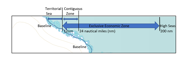 Maritime Zones of the Territorial Sea, Exclusive Economic Zone and High Seas